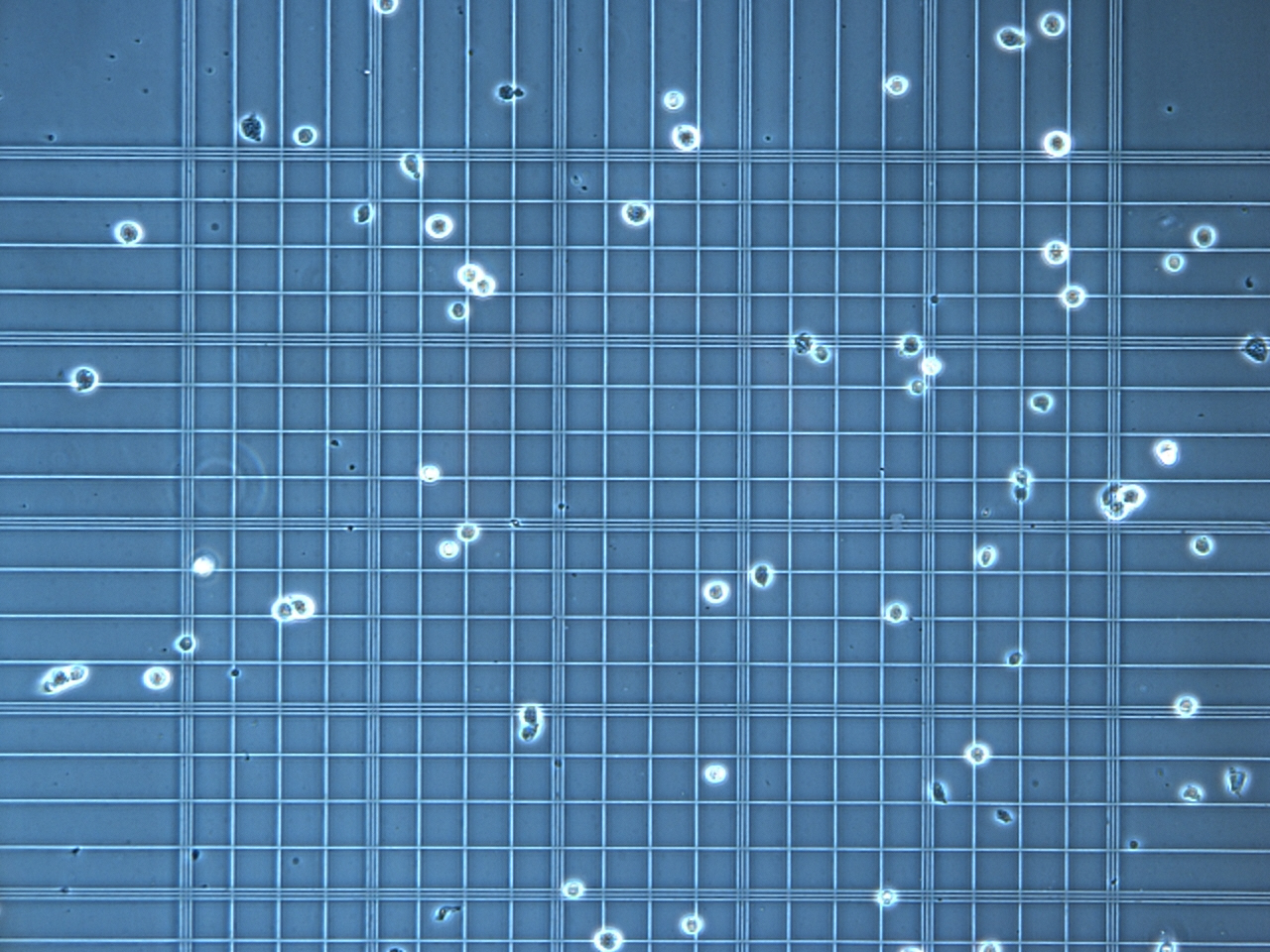 Photography of a phase contrast microscopic view of CHO-Cells on a Neubauer improved counting chamber